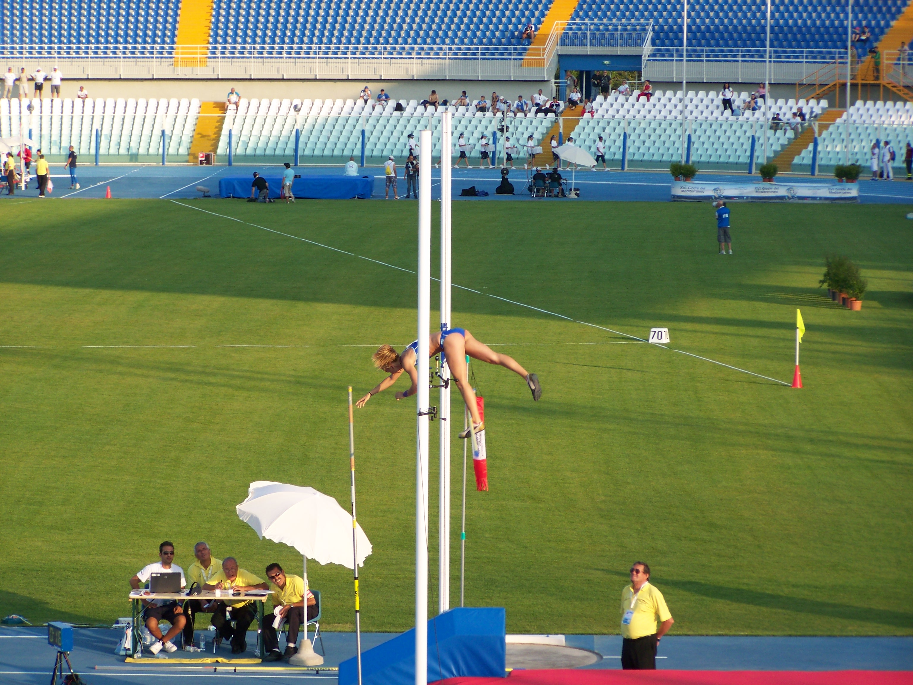 Marianna Zachariadi during the women's pole vault event at the XVI Mediterranean Games in Pescara